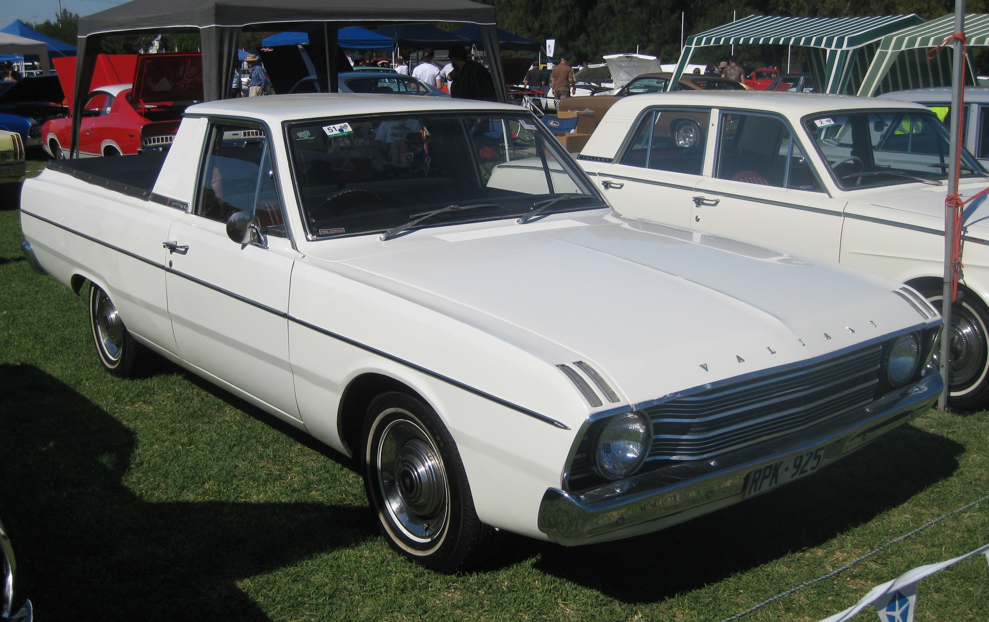 Chrysler VF Valiant Wayfarer utility - as produced by Chrysler Australia from 1969 to 1970.